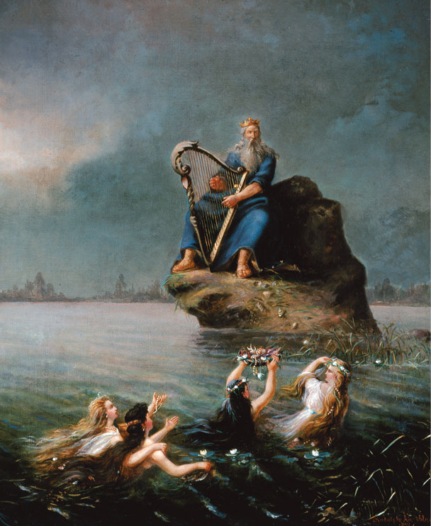 Väinämöinen playing, by Rudolf Åkerblom 1885.